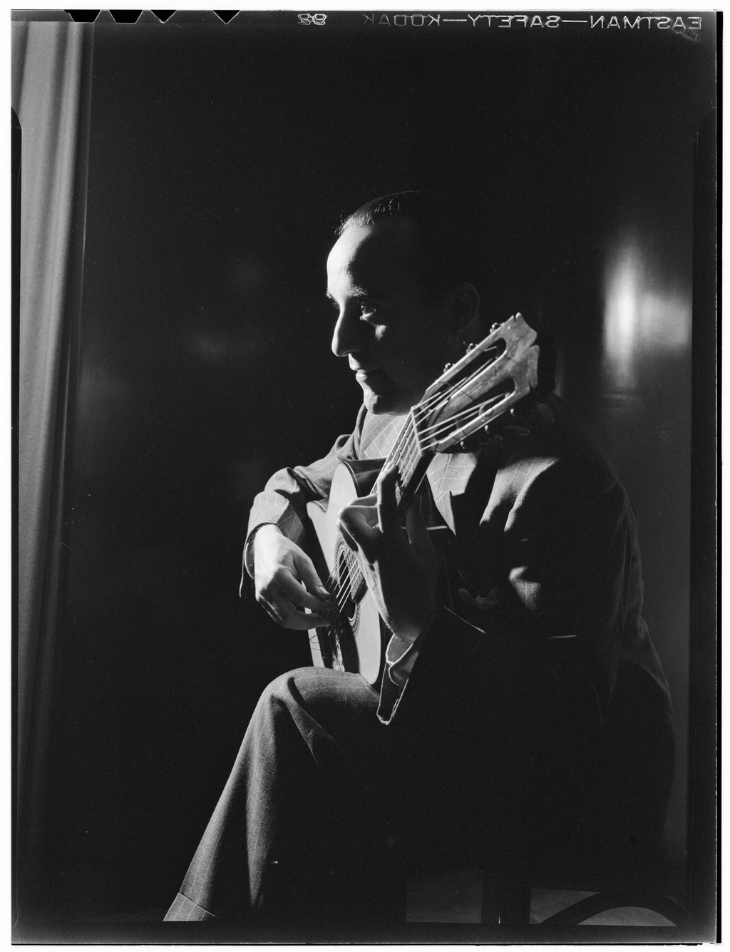 Vincente Gomez Guitarist Gottlieb, William P., 1917-, photographer. [Portrait of Vincente Gomez, Café Society Uptown(?), New York, N.Y., ca. June 1946] 1 negative : b&w ; 3 1/4 x 4 1/4 in. Notes: Gottlieb Collection Assignment No. 531 Purchase William P. Gottlieb Forms part of: William P. Gottlieb Collection (Library of Congress). In: "Vincente Gomez shows how a guitar is played," Down Beat, v. 13, no. 12 (June 3, 1946), p. 2. Subjects: Gomez, Vincente Jazz musicians--1940-1950. Guitarists--1940-1950. Format: Portrait photographs--1940-1950. Film negatives--1940-1950. Rights Info: Mr. Gottlieb has dedicated these works to the public domain, but rights of privacy and publicity may apply. Repository: (negative) Library of Congress, Prints & Photographs Division, Washington D.C. 20540 USA, Part Of: William P. Gottlieb Collection (DLC) 99-401005 General information about the Gottlieb Collection is available at Persistent URL: Call Number: LC-GLB13- 1214